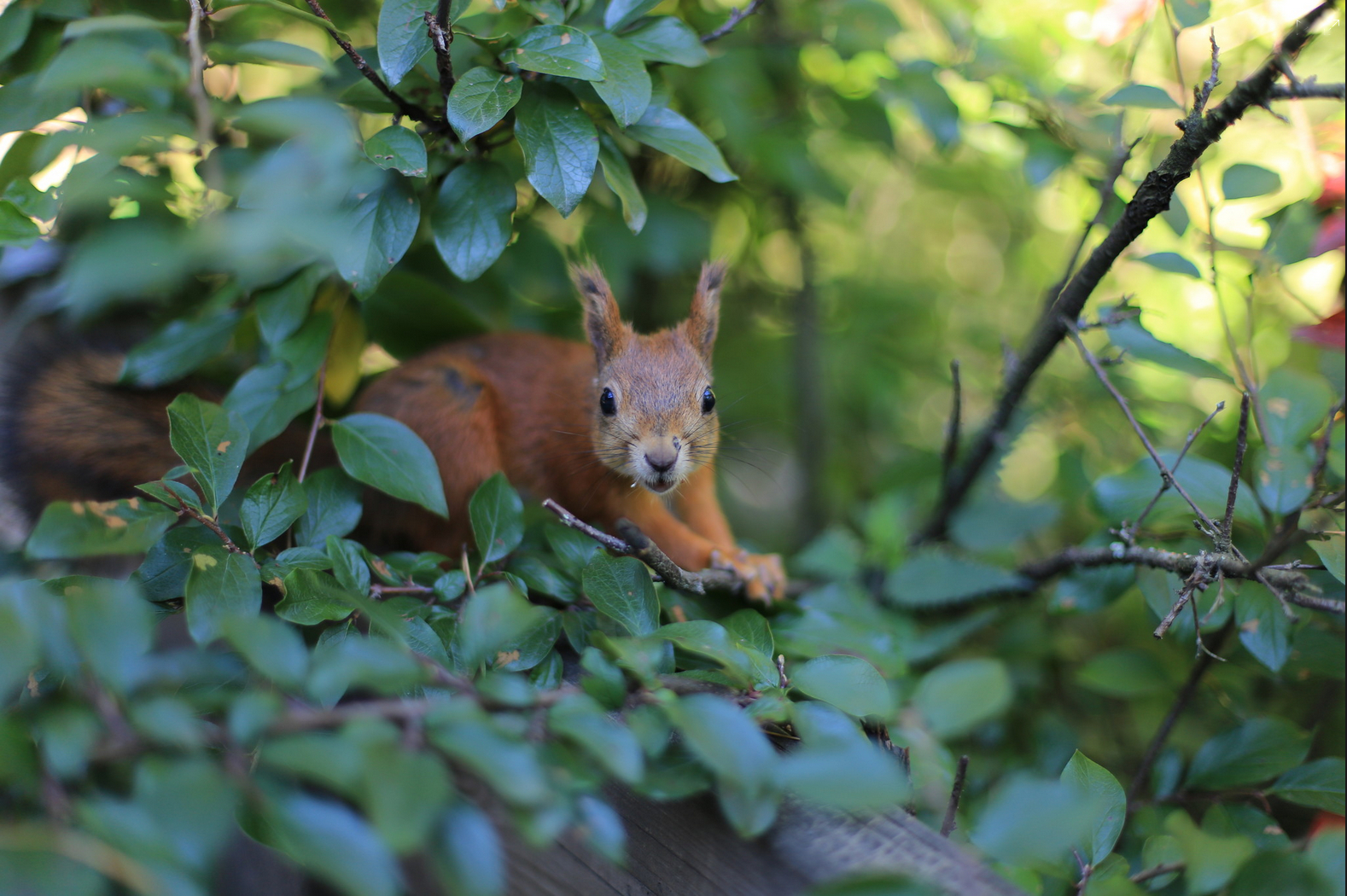 Red squirrel at Kuusijärvi lake in Vantaa, Finland.